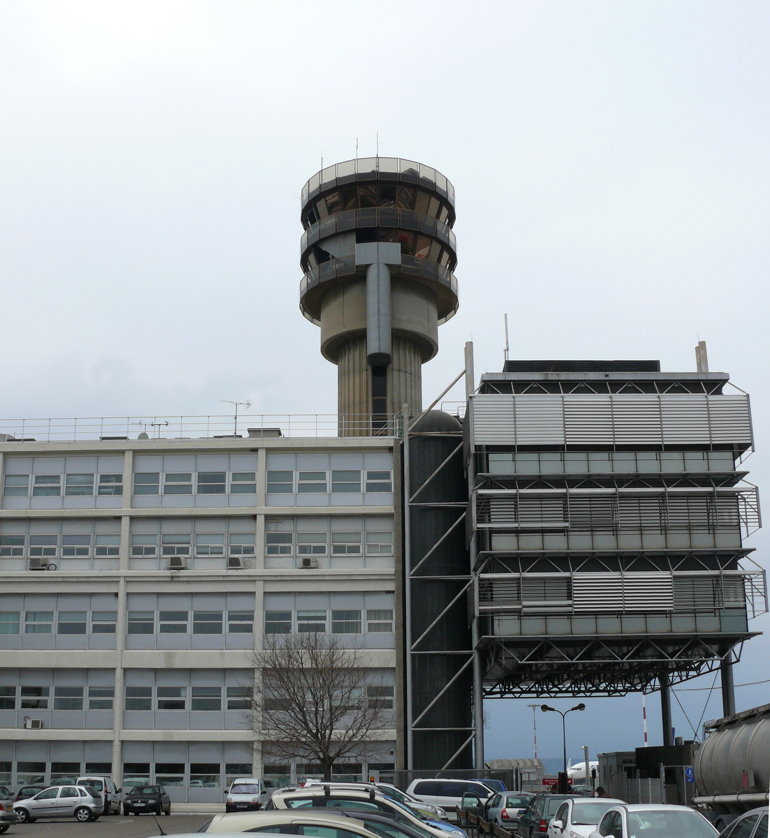 Airport Marseille MP2 (terminal 2; low cost terminal) with control tower.